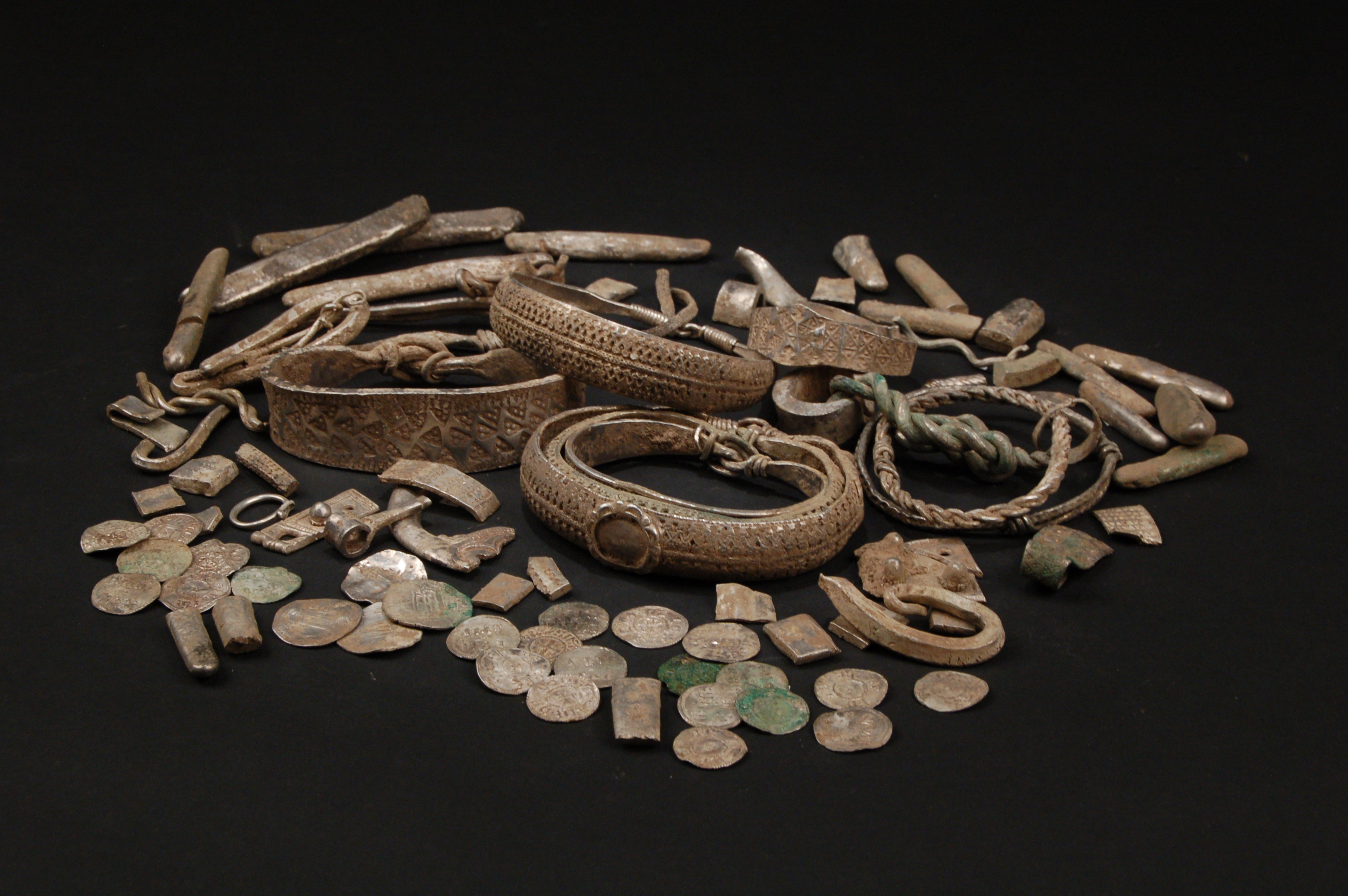 Group shot of the Silverdale Hoard finds. Image by Ian Richardson.